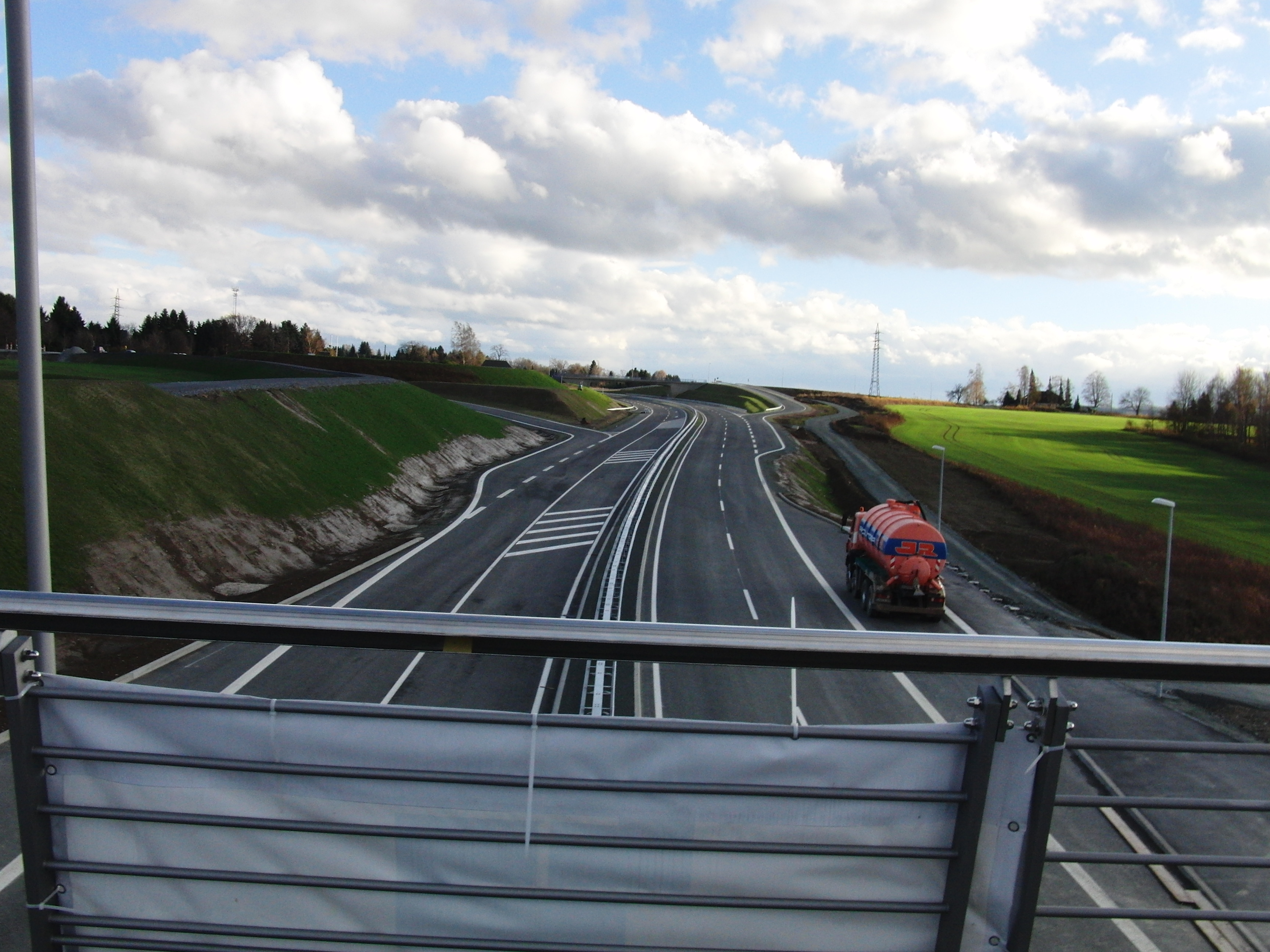 Four-lane construction of the B174 on the outskirts of Chemnitz on 11/09/13. Street not yet opened at the record time. Photo taken from the footbridge south direction.